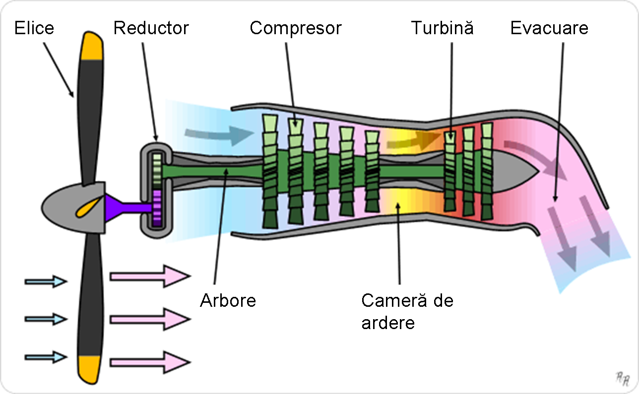 Schematic diagram of the operation of a turboprop engine. Drawn using XaraXtreme by Emoscopes 21:54, 15 December 2005 (UTC) Translated by Giku